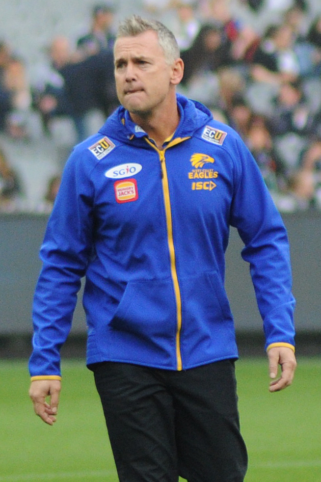 Adam Simpson during the AFL round five match between Carlton and West Coast on 21 April 2018 at the Melbourne Cricket Ground in Melbourne, Victoria.